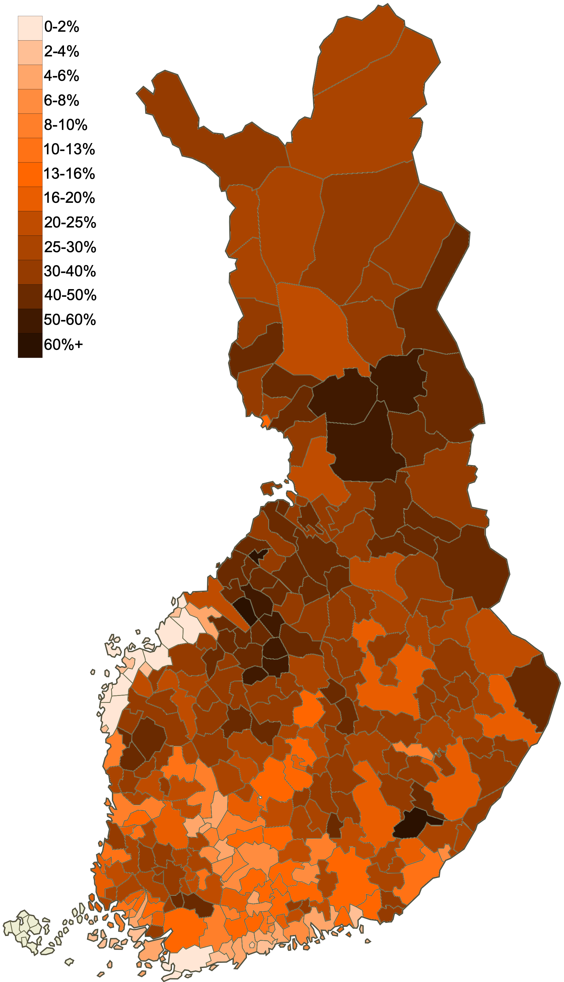 Support for the Center Party by municipality in the election for the Eduskunta.